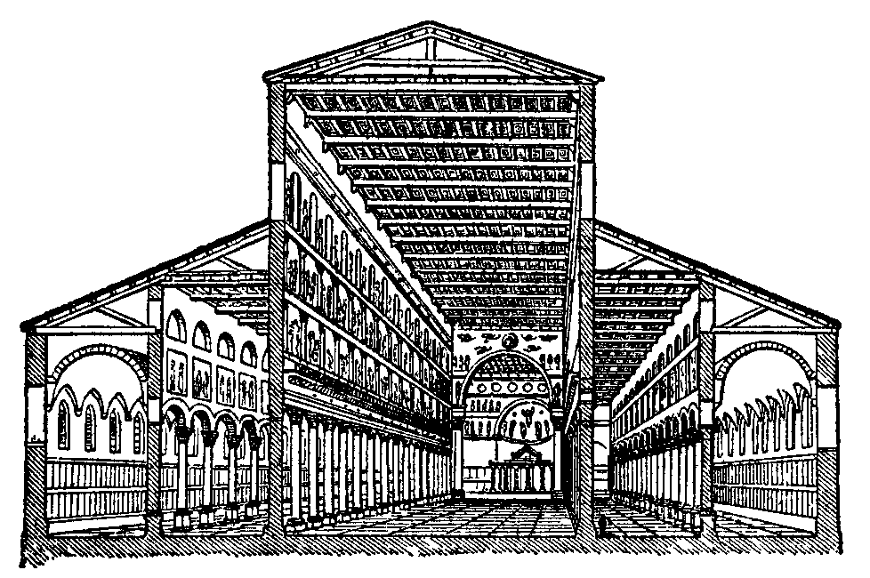 Illustration from 1911 Encyclopædia Britannica, article BASILICA. Fig. 11.—Sectional view of the old Basilica of St Peter, before its destruction in the 16th century.